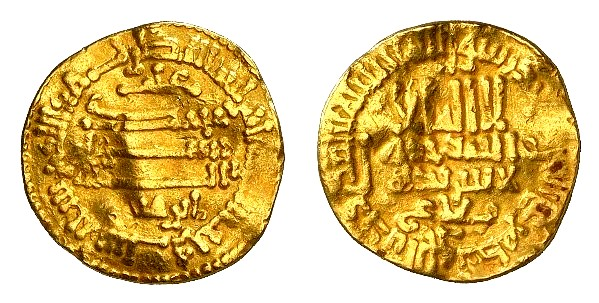 Aghlabid dinar (gold), minted (by Ballagh بلاغ, mint official صاحب السكة)in 286 AH / 899 AD during the reign of the Aghlabid emir Ibrahim II (261-289 AH / 874-902 AD)